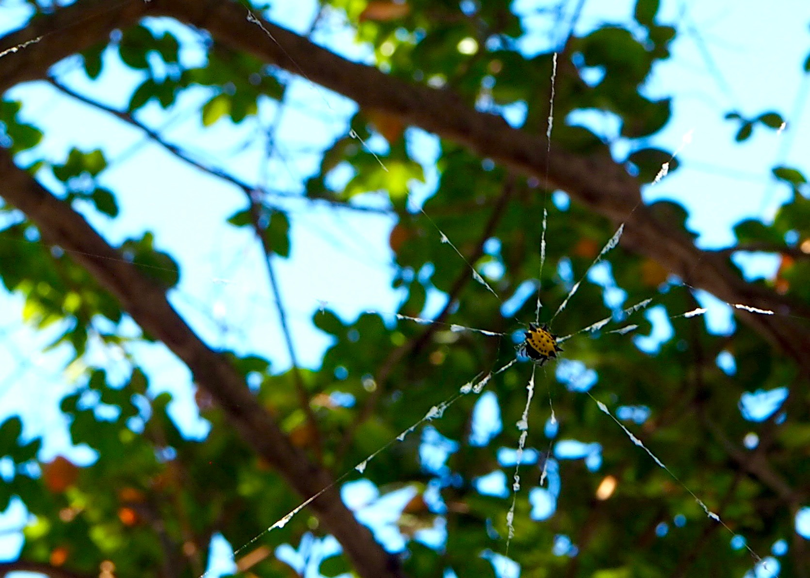 Yellow spiny back orb weaver spider. Photographed in New Orleans, Louisiana, USA